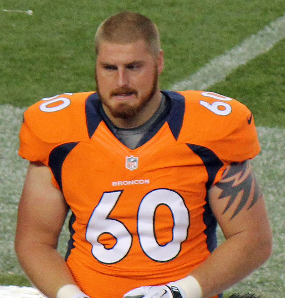 "Michael Remmers (born April 11, 1989) is an American football offensive tackle for the Denver Broncos. He played college football at Oregon State"--Wikipedia.